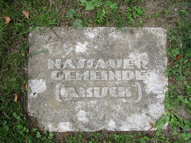 Gedenkplatte der früheren amischen Gemeinde aus dem früheren Herzogtum Nassau beim Gedenkstein für Menno Simons bei der Mennokate